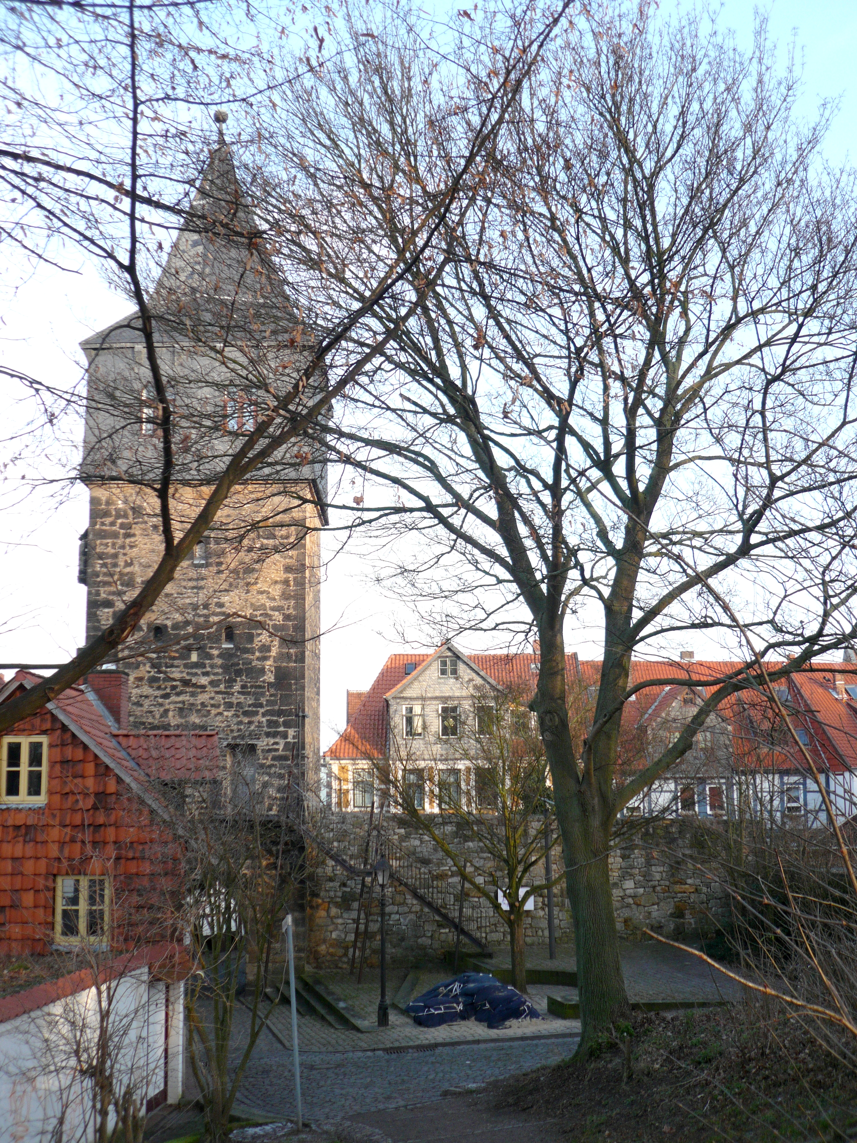 Remains of town wall in Hildesheim